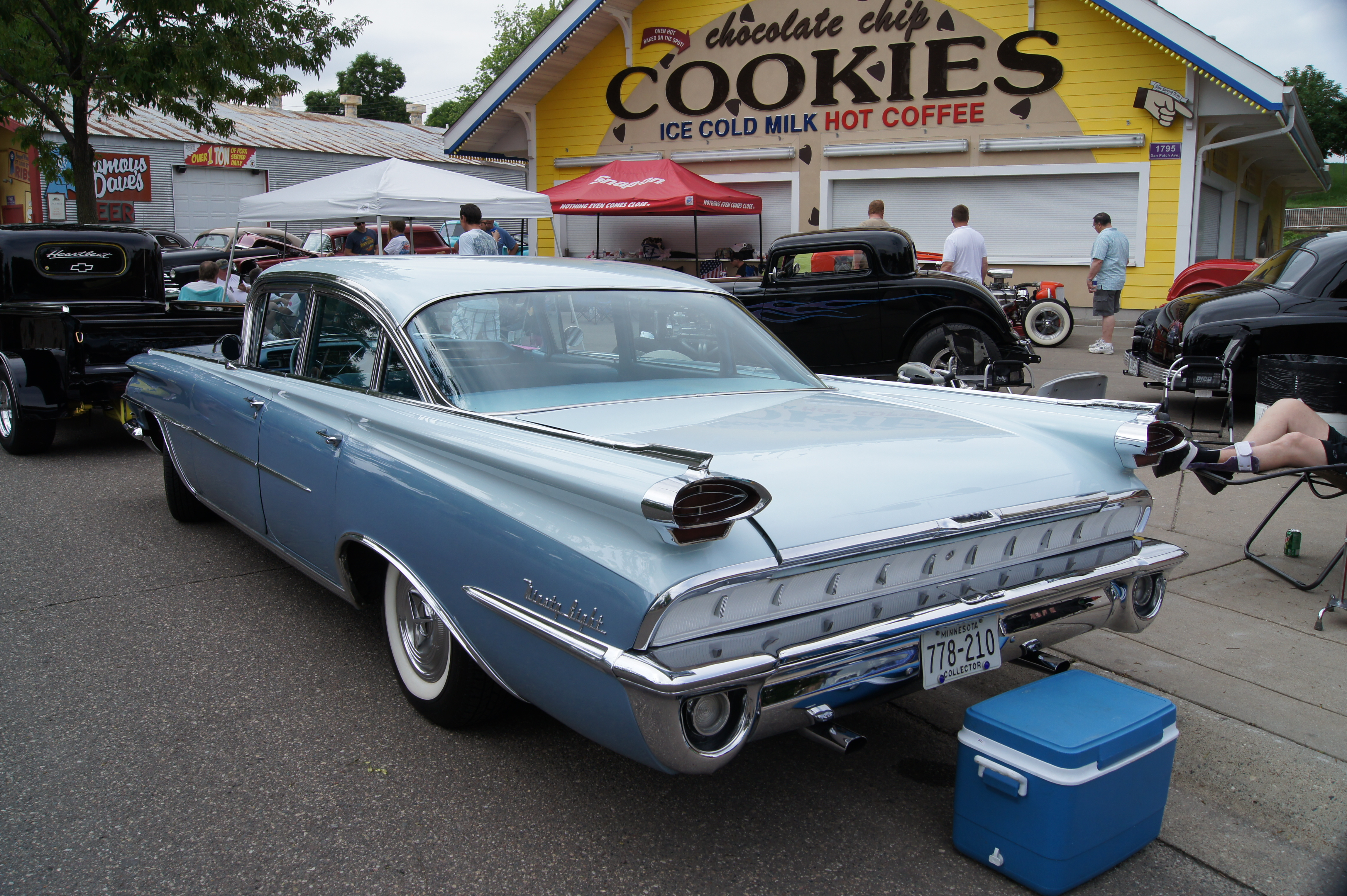 MSRA “BACK TO THE 50′s” 40th ANNIVERSARY June 21-23, 2013 State Fairgrounds St. Paul Minnesota More Car Pictures